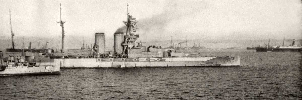 Battleship HMS Queen Elizabeth, at the Dardanelles